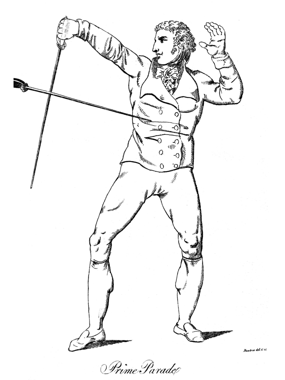 Illustration of the prime parry, from Roworth's manual of defense with the broadsword and sabre, 1798